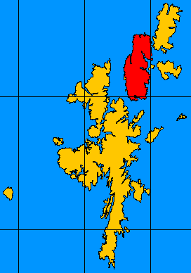 Adaption of Shetland.png highlightin Yell